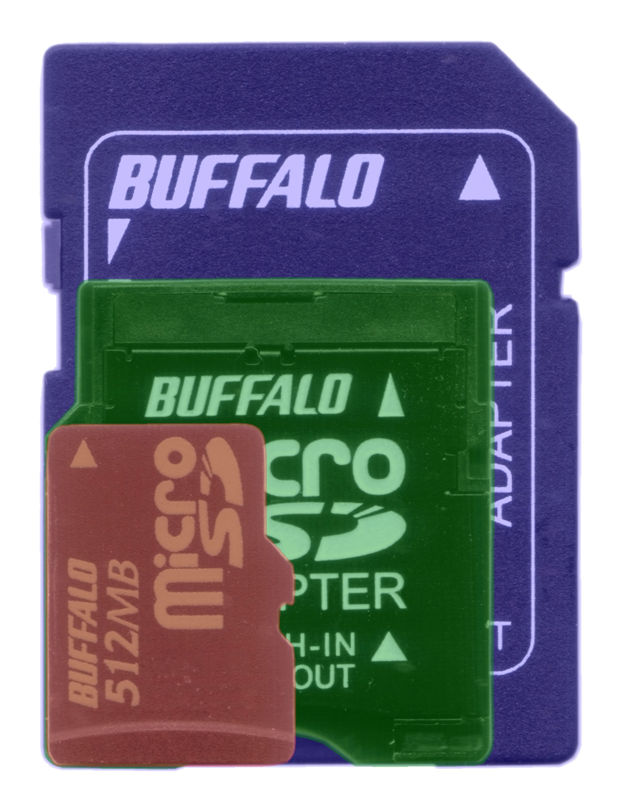 microSD Memory Card and adapters